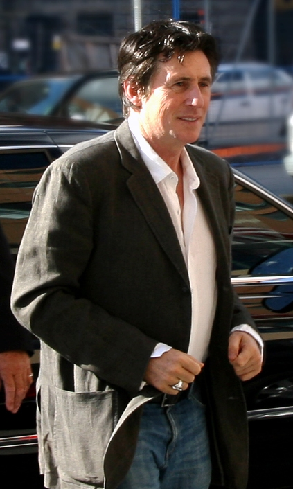 Gabriel Byrne at the 2007 Toronto International Film Festival